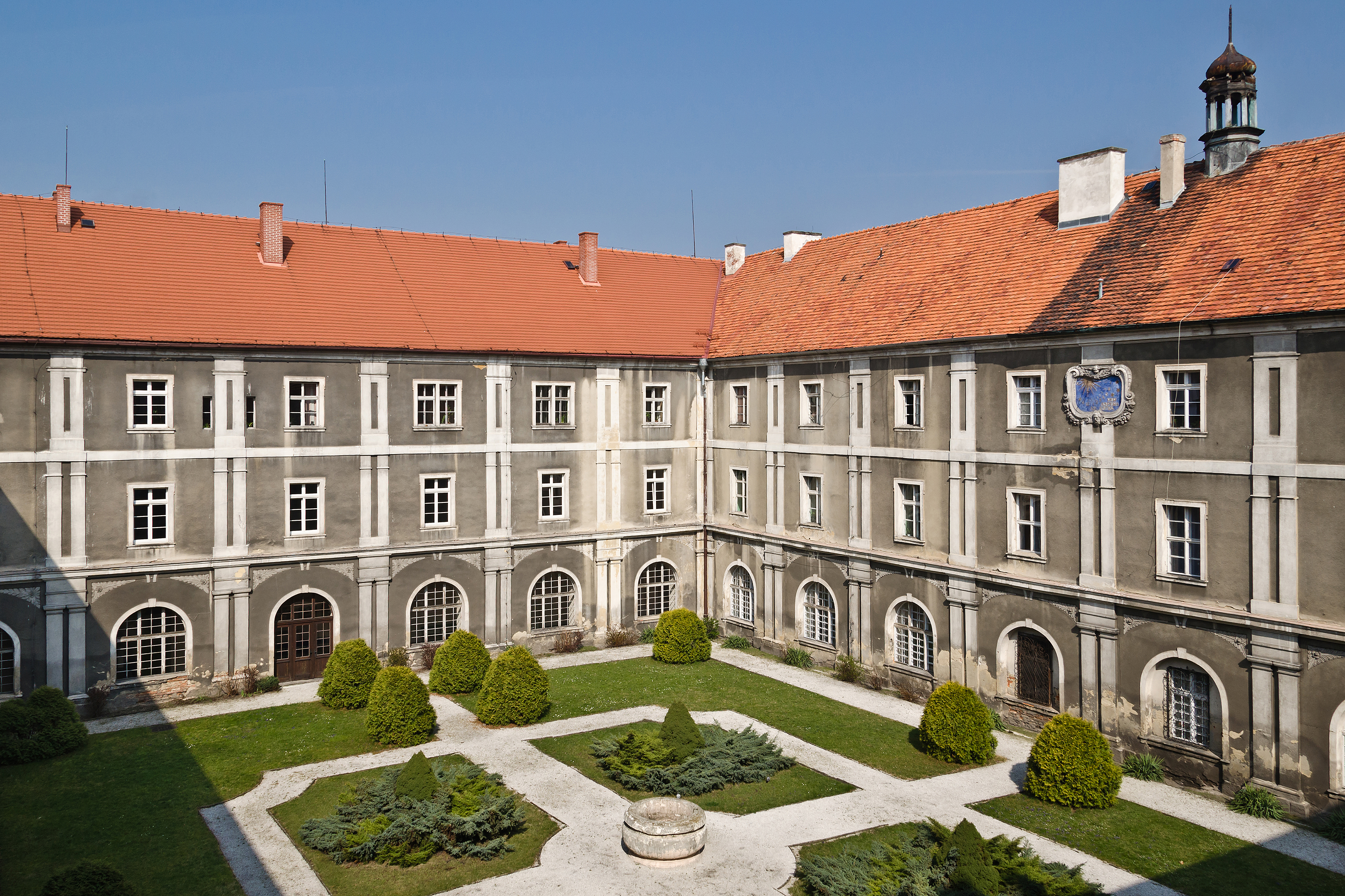 First High School in Kłodzko